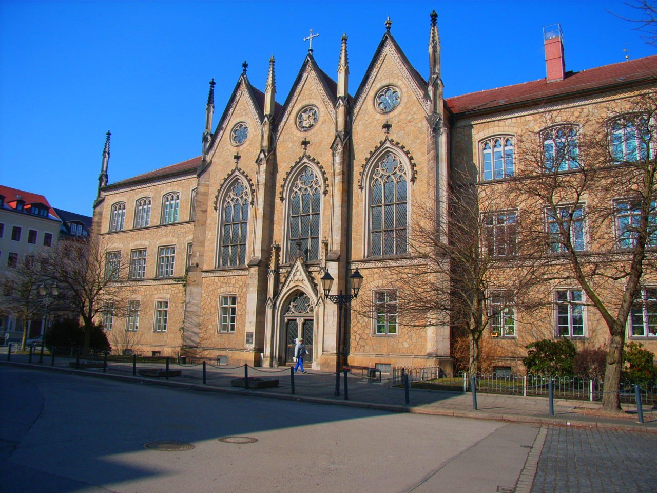 Klosterschule in Görlitz, Saxony